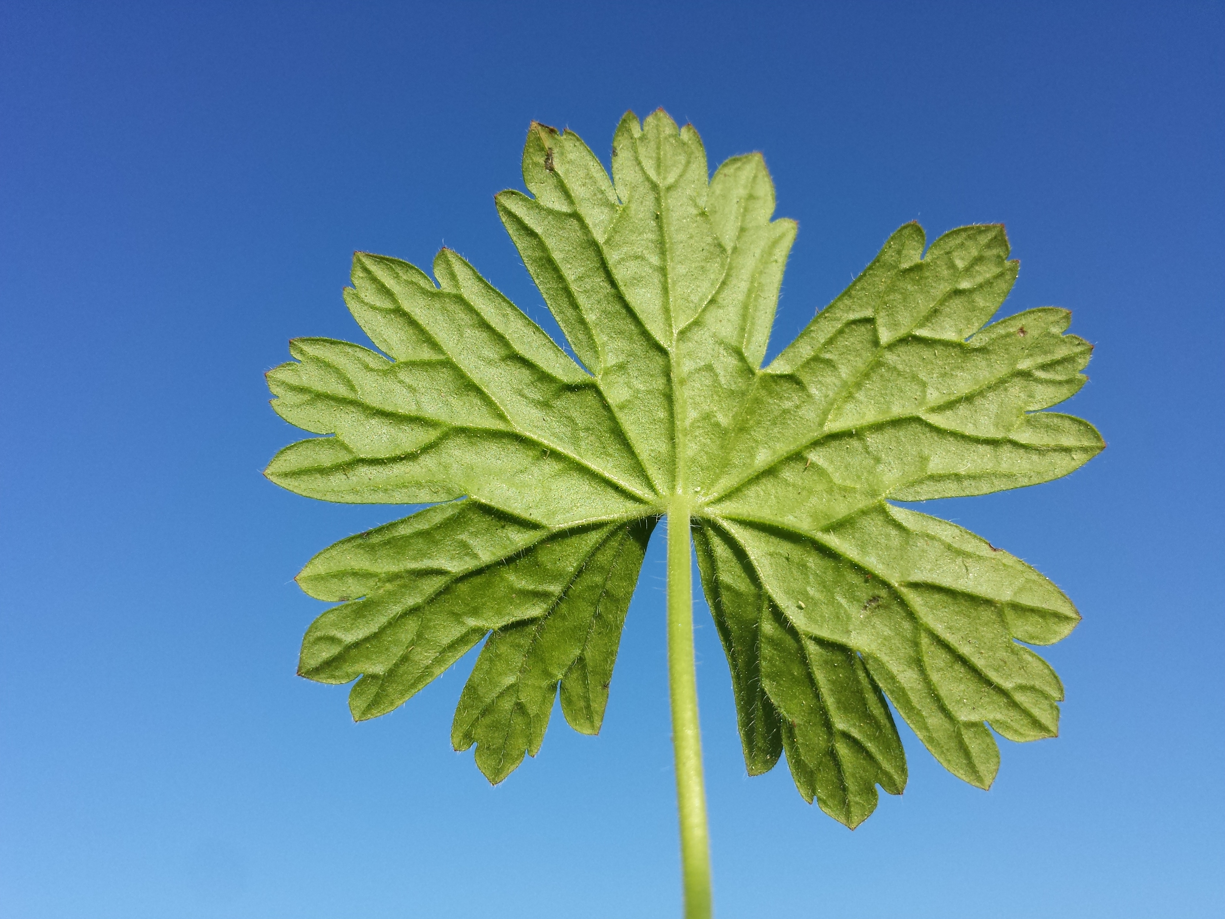 Leaf (bottom side) Taxonym: Geranium pyrenaicum ss Fischer et al. EfÖLS 2008 ISBN 978-3-85474-187-9 Location: Jedleseer Friedhof, Vienna-Floridsdorf - ca. 160 m a.s.l. Habitat: lawn